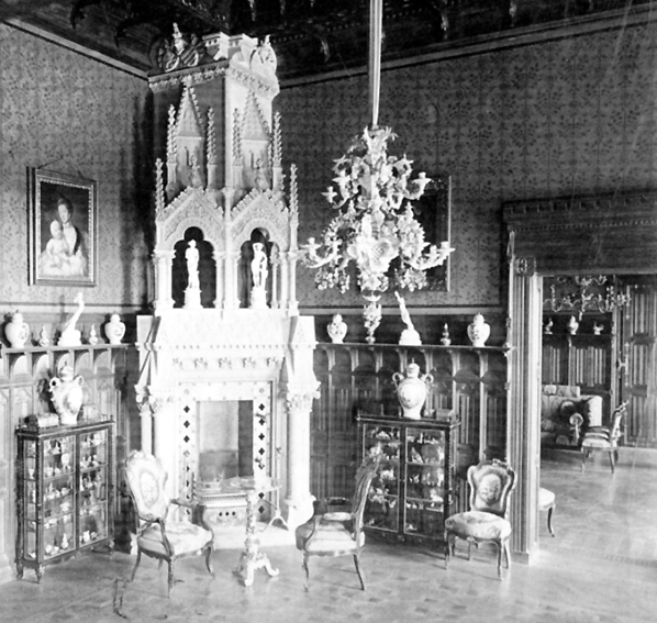 Drawing room of Queen Marie in the Marienburg near Nordstemmen, Lower Saxony, Germany, in the year 1867.